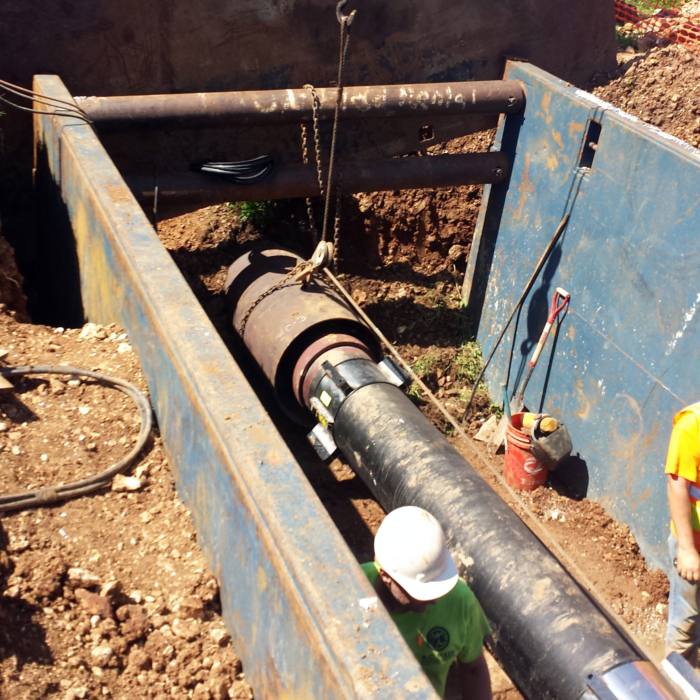 18" Class 50 ductile iron sewer line with Protecto 401 lining being pulled in to a 30" Steel Encasement from a crane truck in Lowell, AR